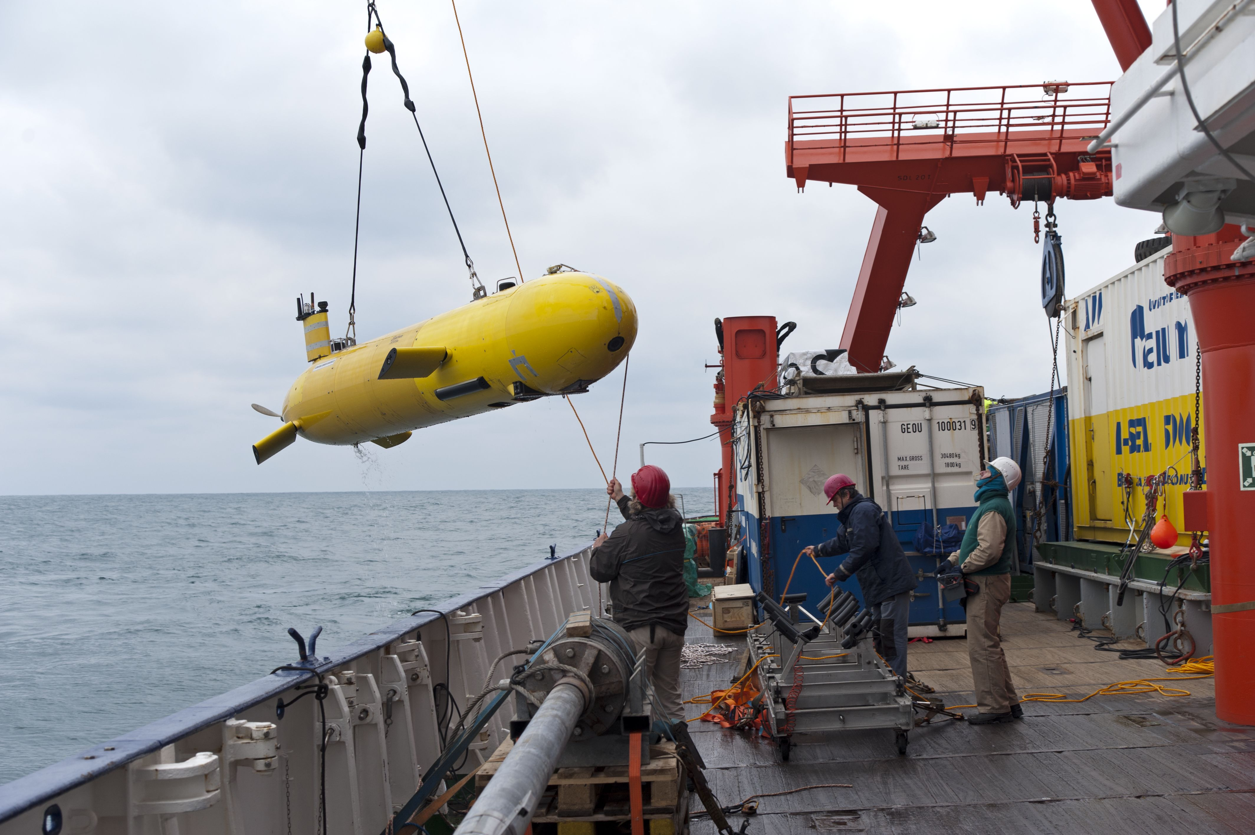 De­ploy­ing the autonom­ous un­der­wa­ter vehicle MARUM-SEAL from the RV MET­EOR in the Black Sea